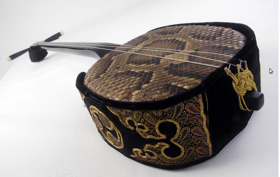 Sanshin. Collection of Museo Azzarini, Universidad Nacional de La Plata.